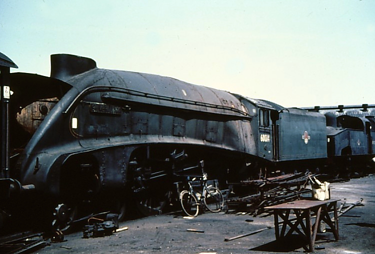 60014 Silver Link at Doncaster Works